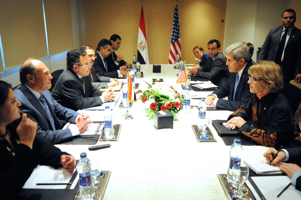 Original title: "Secretary Kerry And U.S. Delegation Meet With Egyptian Foreign Minister Fahmy", original description: "U.S. Secretary of State John Kerry, accompanied by a government delegation, meets with Egyptian Foreign Minister Nabil Fahmy and respective counterparts at the outset of a meeting in Cairo, Egypt, on November 3, 2013. [State Department photo/ Public Domain]"